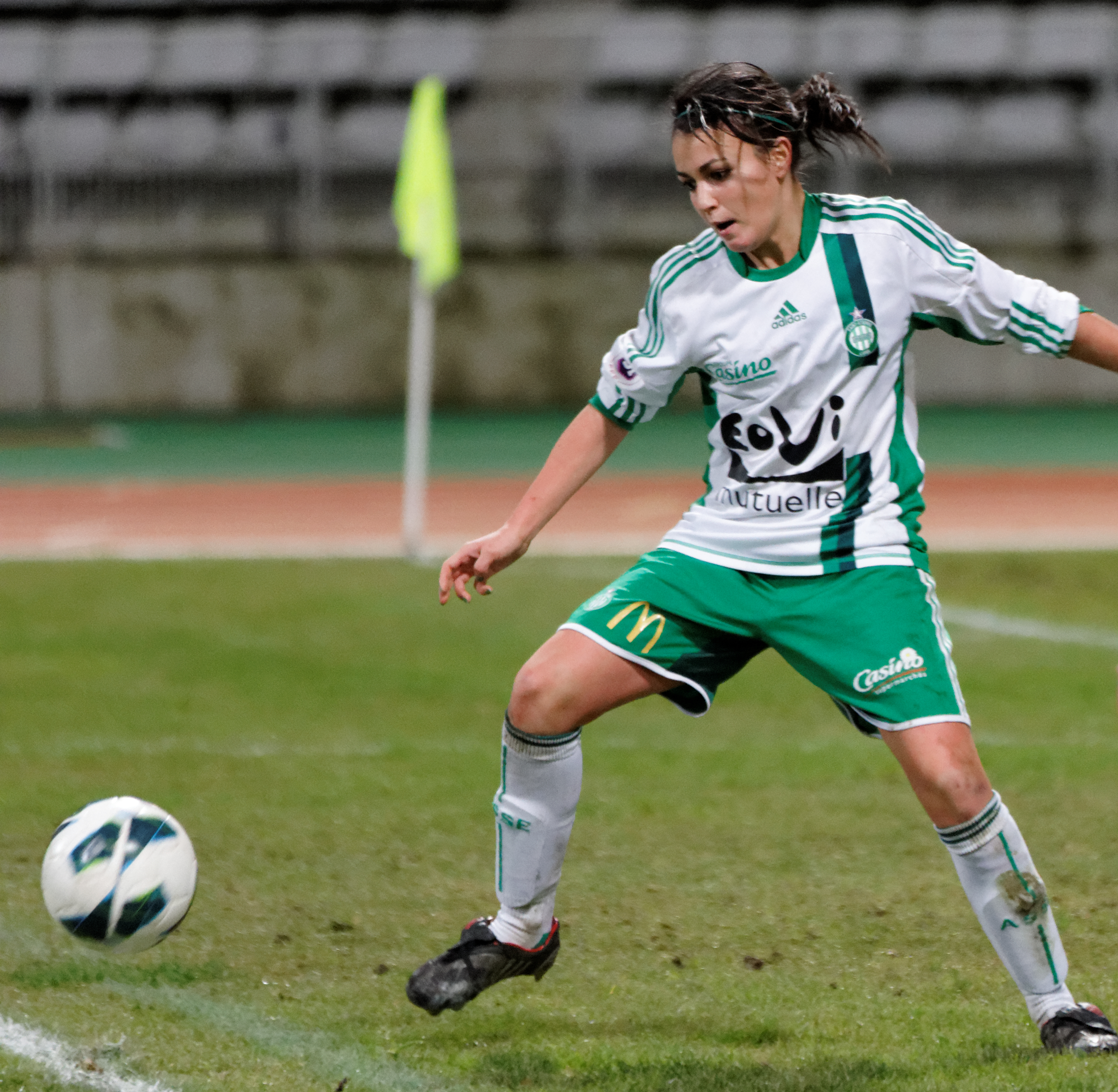 PSG-AS Saint-Étienne, december 16th, 2012. Ophélie Brevet (ASSE).